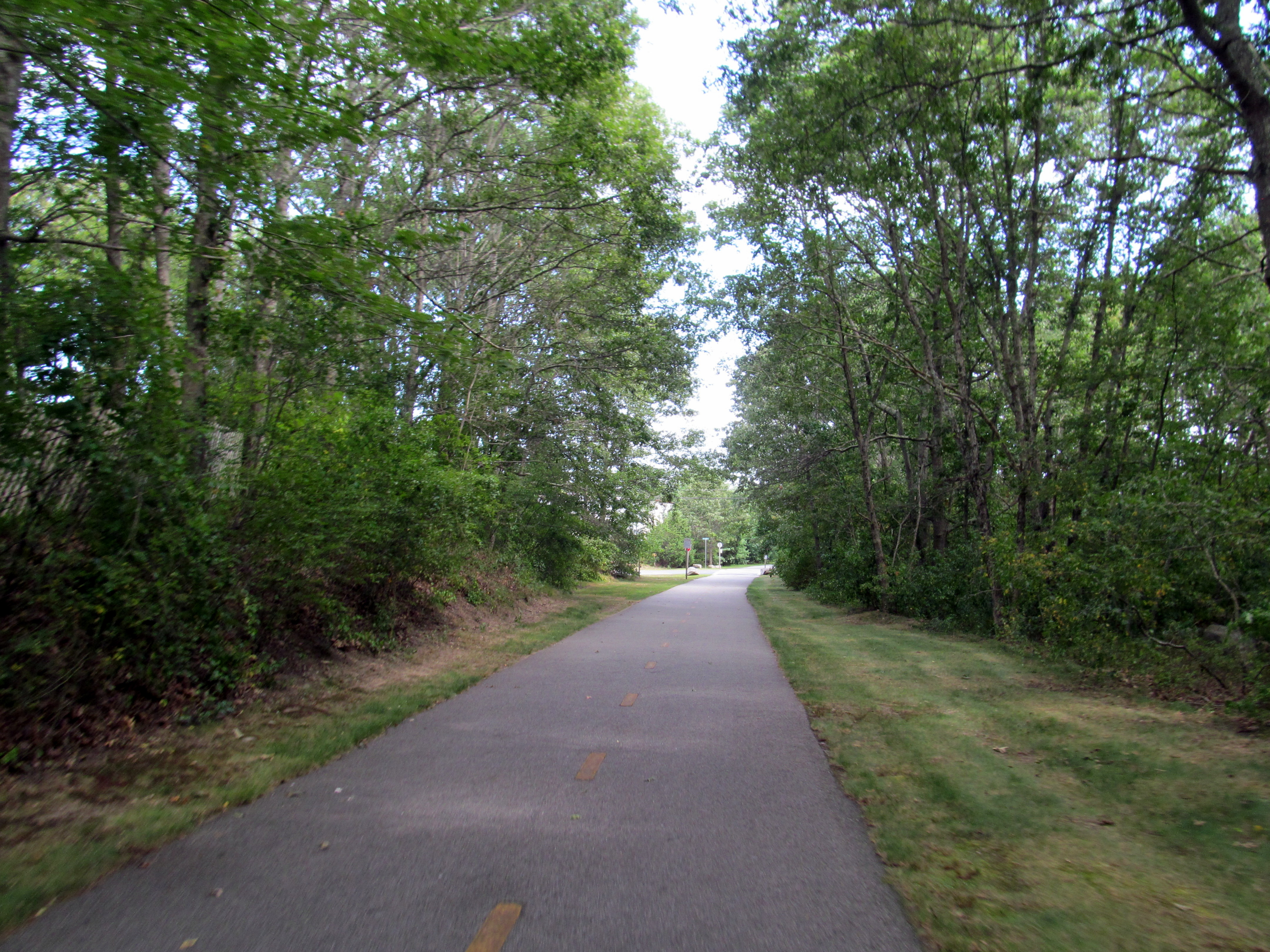 The South County Bike Path near Asa Pond Road on the west edge of Peace Dale, Rhode Island